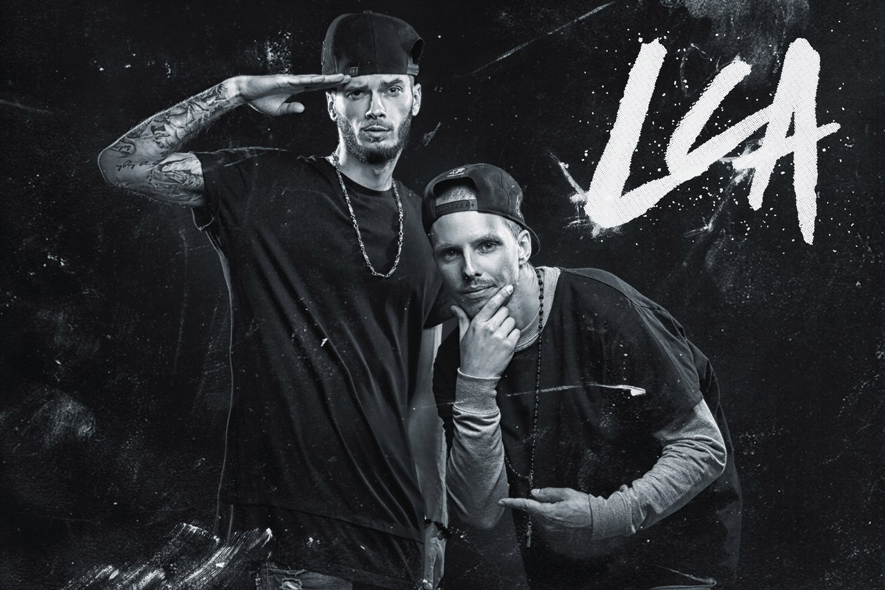 Hip-hop duo Anthony & Vitalyano better known as LCA